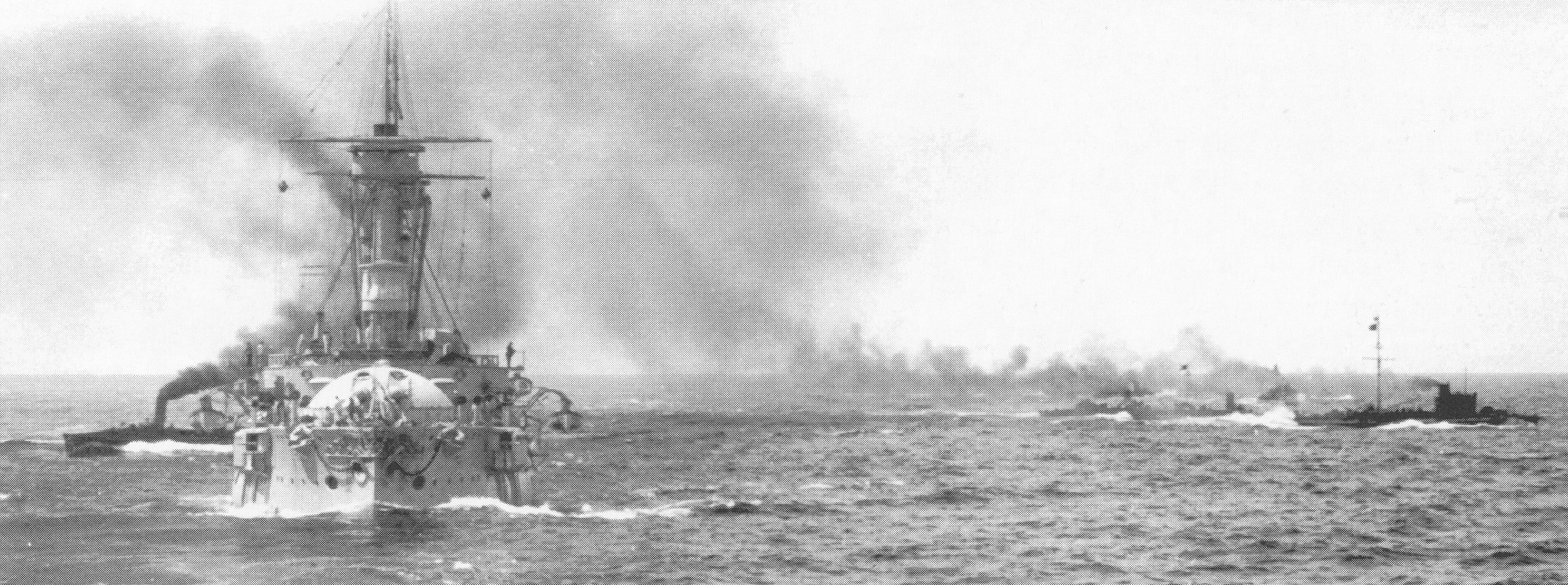 The German battleship SMS Brandenburg and torpedo boats in 1898.